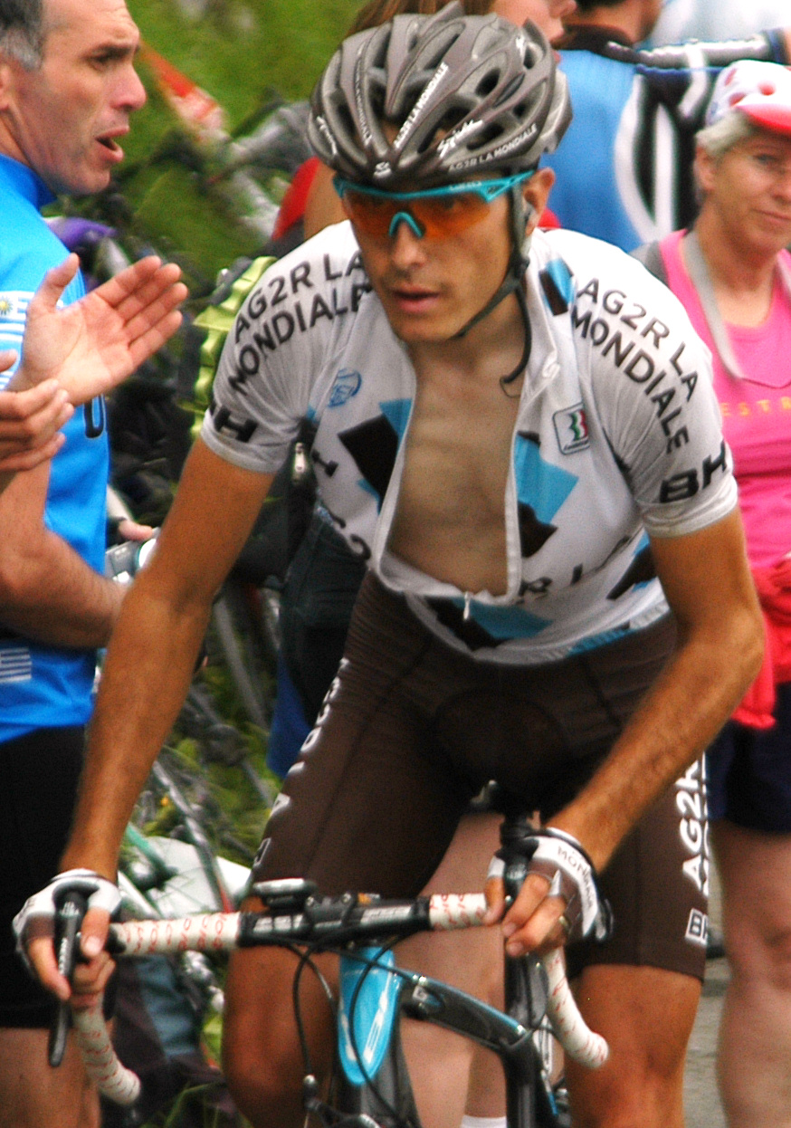 Hubert Dupont (FRA) at stage 17 of the 2009 Tour de France on the Col de la Colombière.